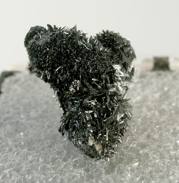 Ramsdellite Locality: Lake Valley District, Sierra County, New Mexico, USA (Locality at ) Size: 1.3 x 1.3 x 1.2 cm. Scintillating, metallic-gray ramsdellite needles in radiating spherical aggregates form a fine thumbnail specimen from the Type Locality - the Lake Valley District of New Mexico. Ramsdellite is a rare manganese oxide and this is choice, older material. Ex. Dick Jones Collection.